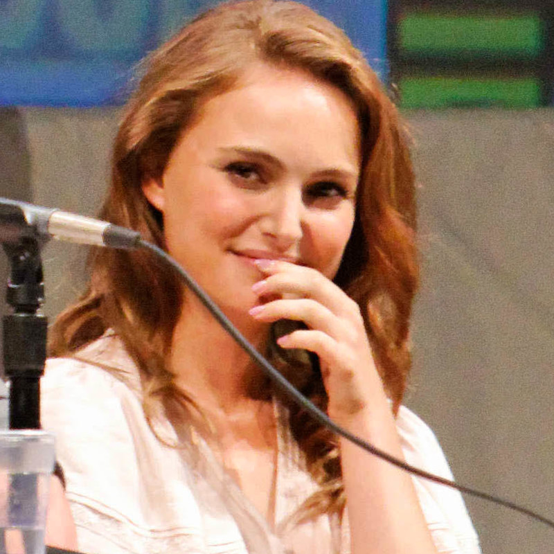 Kenneth Branagh, Chris Hemsworth, Natalie Portman, Kat Dennings